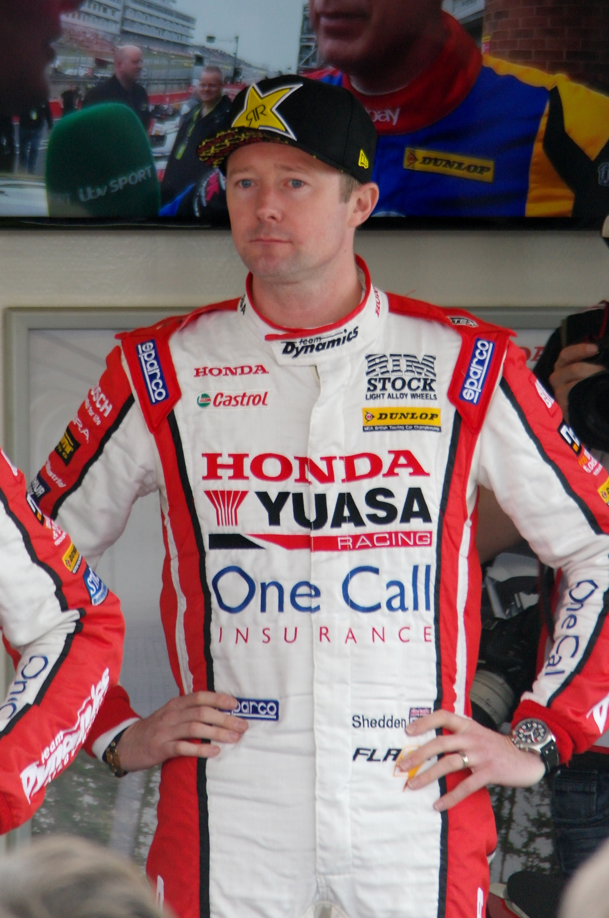 Gordon Shedden at the Brands Hatch Indy round of the 2014 British Touring Car Championship.